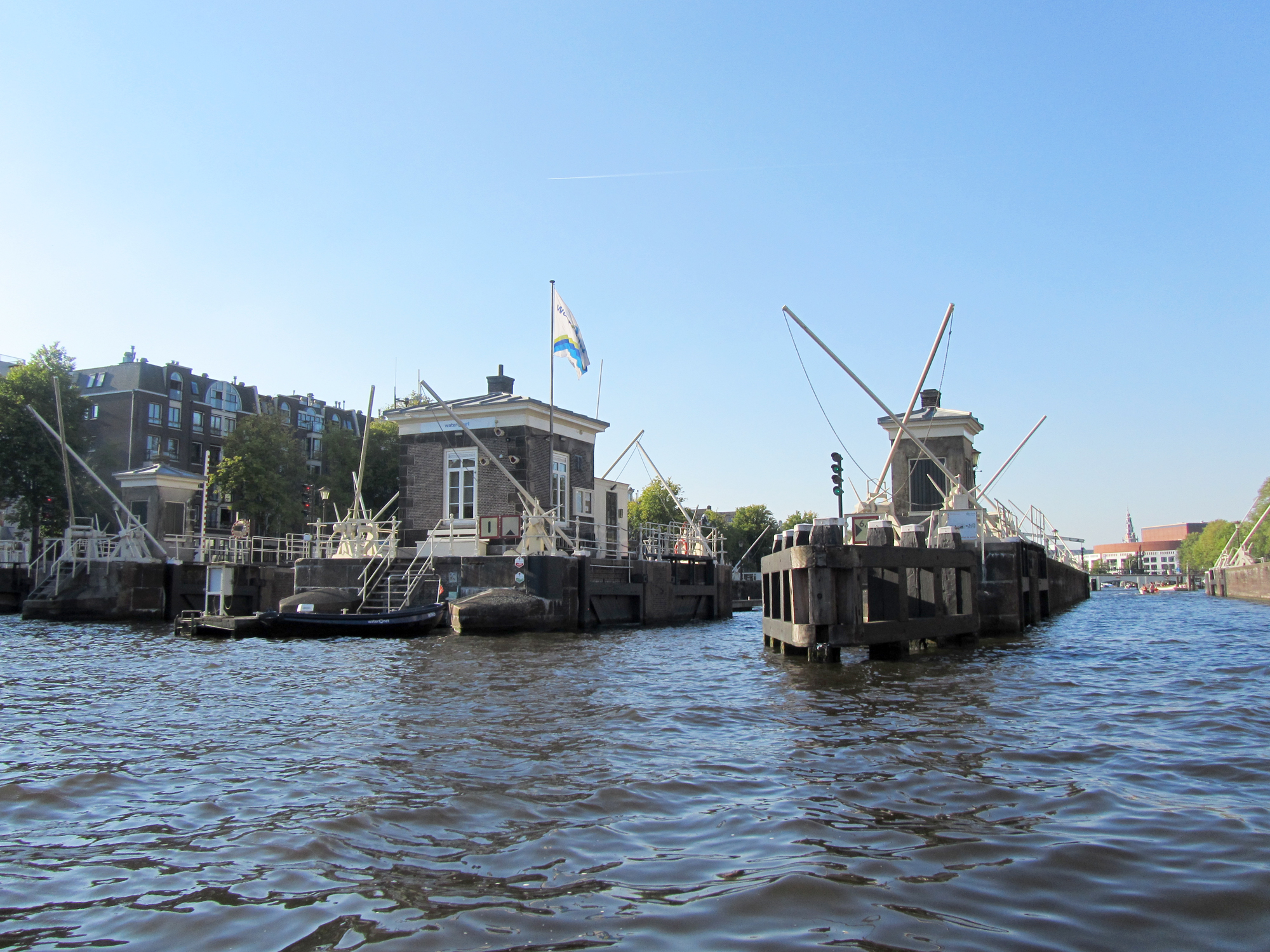 The Amstelsluizen on the Amstel river in Amsterdam, seen from the south